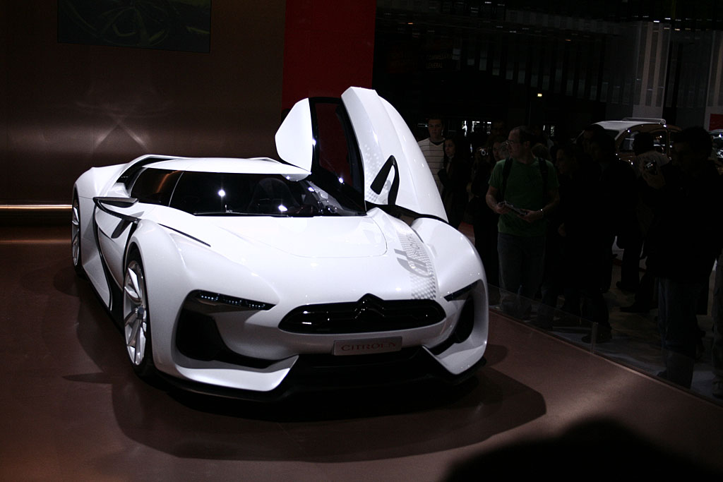 The GT by Citroën unveiled at the 2008 Paris Motor Show.